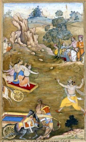 Drona parwa